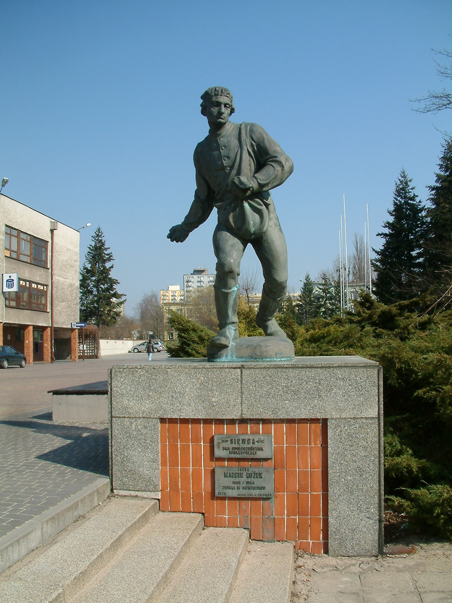 Sower in front of Collegium Maximum - Agricultural University of Poznań